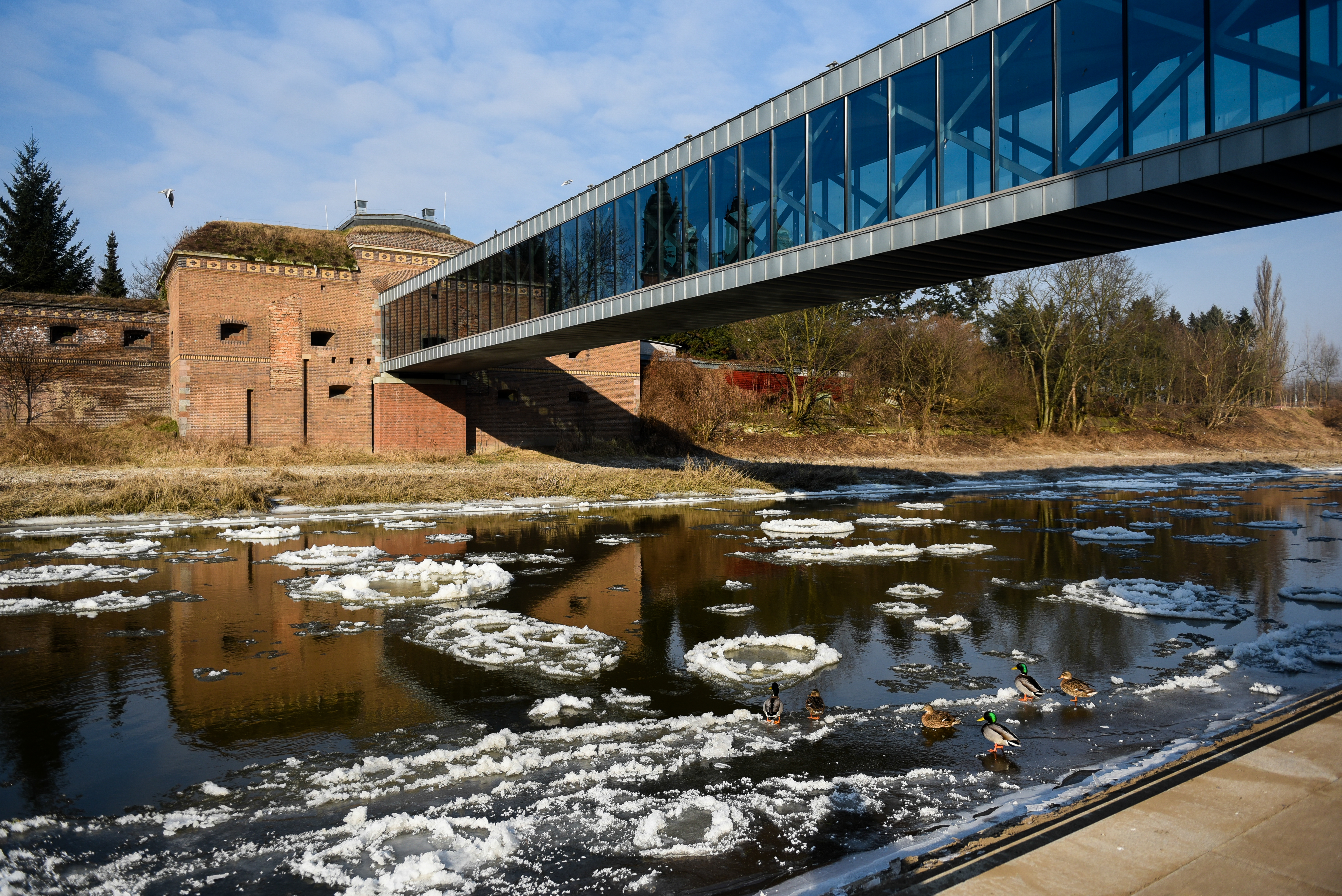 Cathedral Lock in Poznań (east, river level, winter)